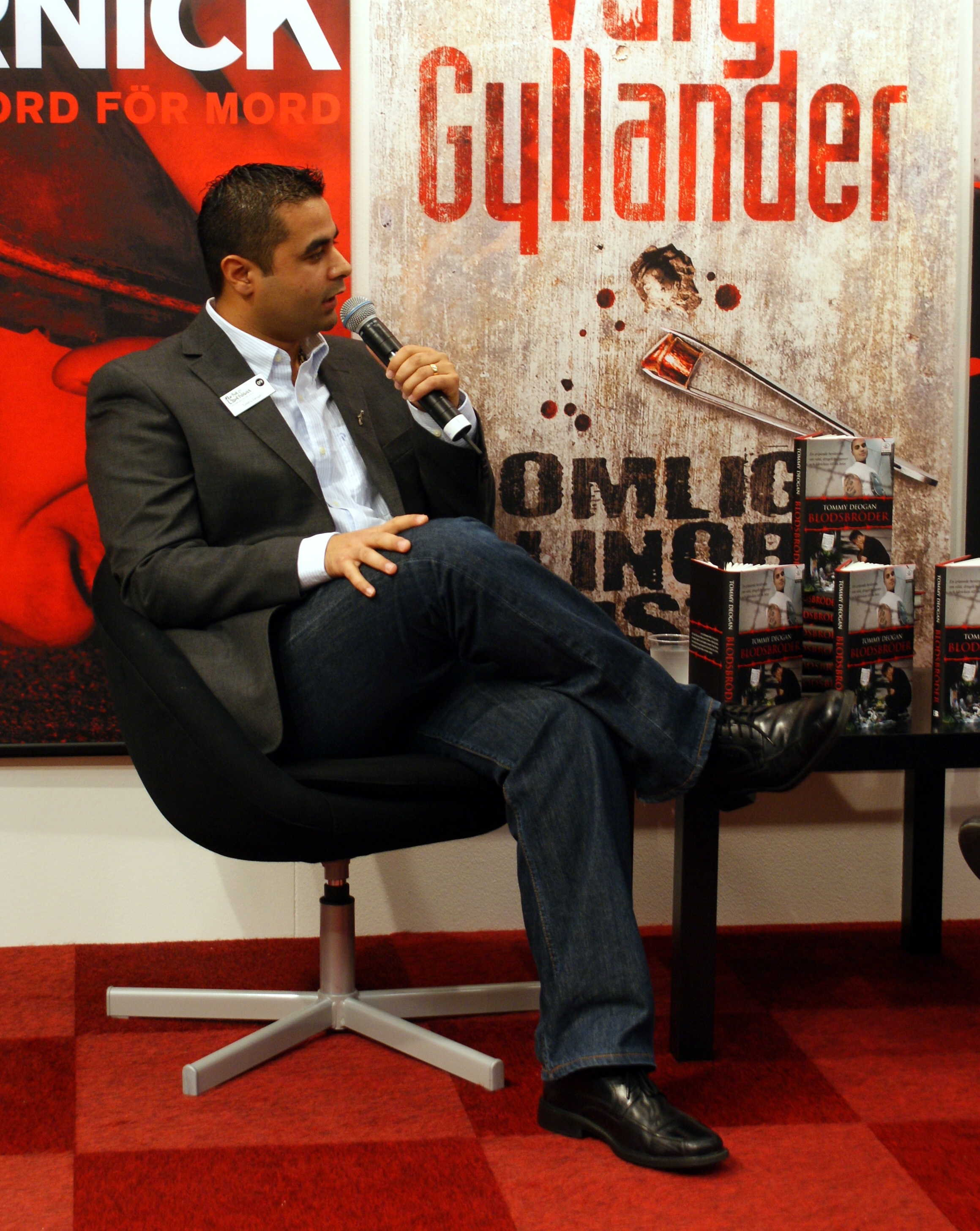 At the bookfair in Gothenburg 2009.